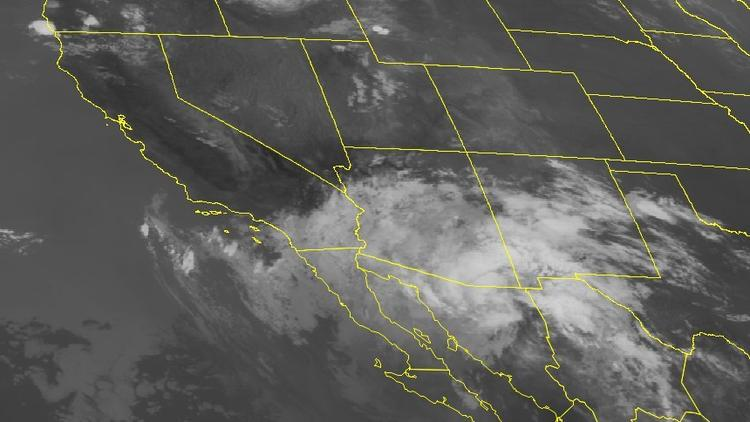 Infrared satellite image of the remnants of Hurricane Blanca spreading moisture across the Southwestern United States.